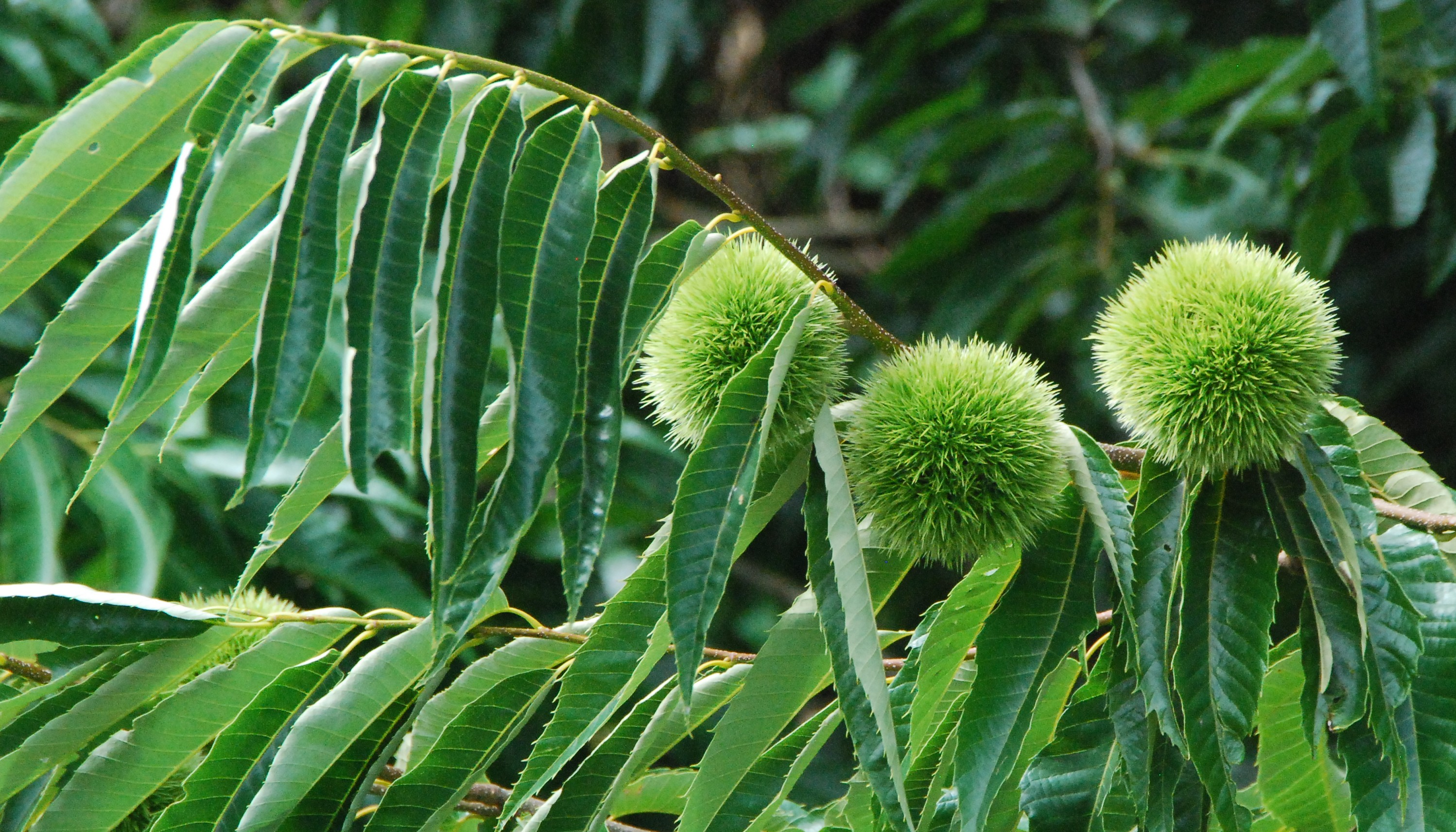 Sweet chestnut